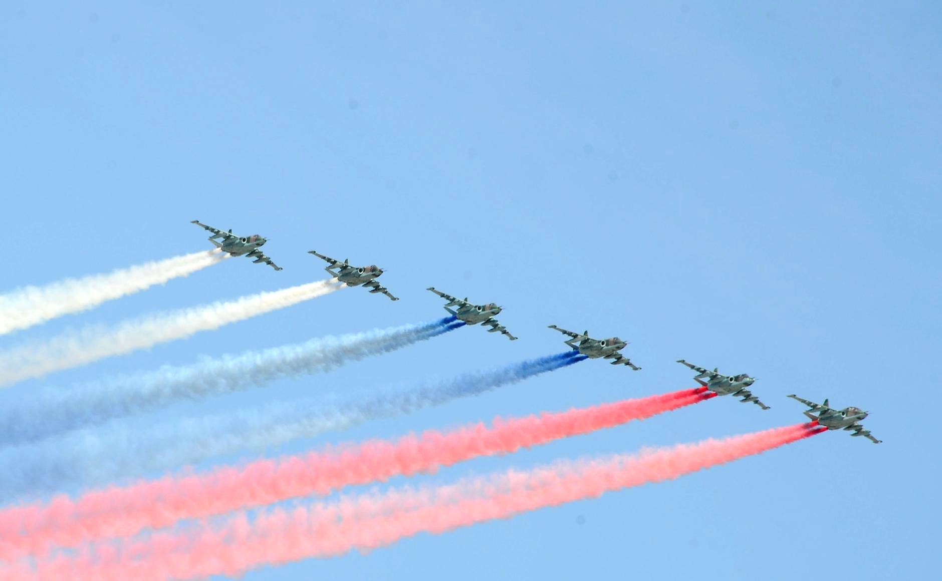 Military parade on Red Square 2016-05-09